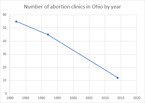 Number of abortion clinics in Ohio by year. Data is from articles linked at